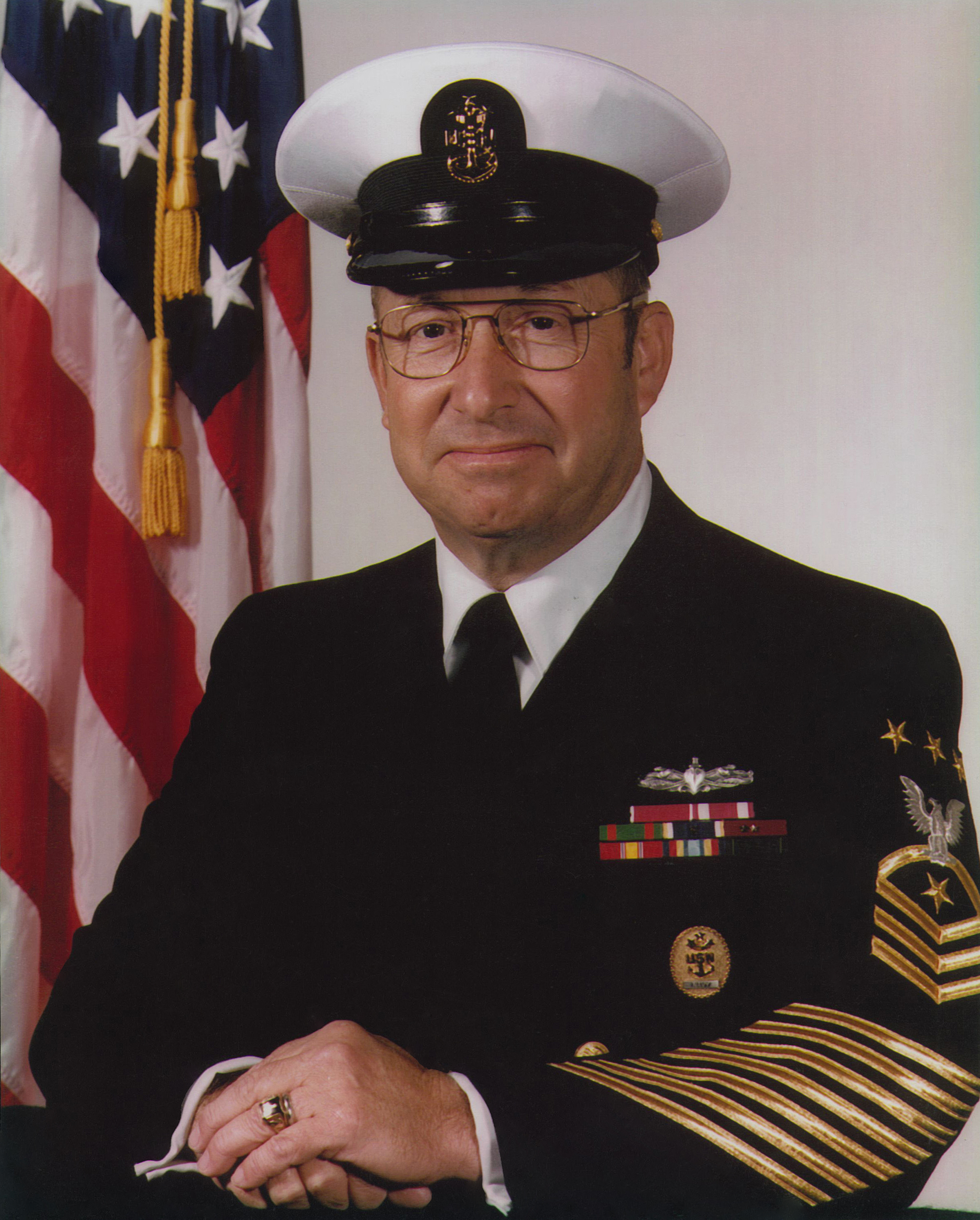 RMCM William H. Plackett, USN Sixth Master Chief Petty Officer of the Navy October 4, 1985 to September 9, 1988